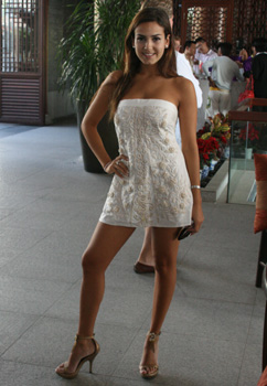 Miss Paraguay 2007 - María de la Paz Vargas Morinigo in Miss World 2007, Sanya, China